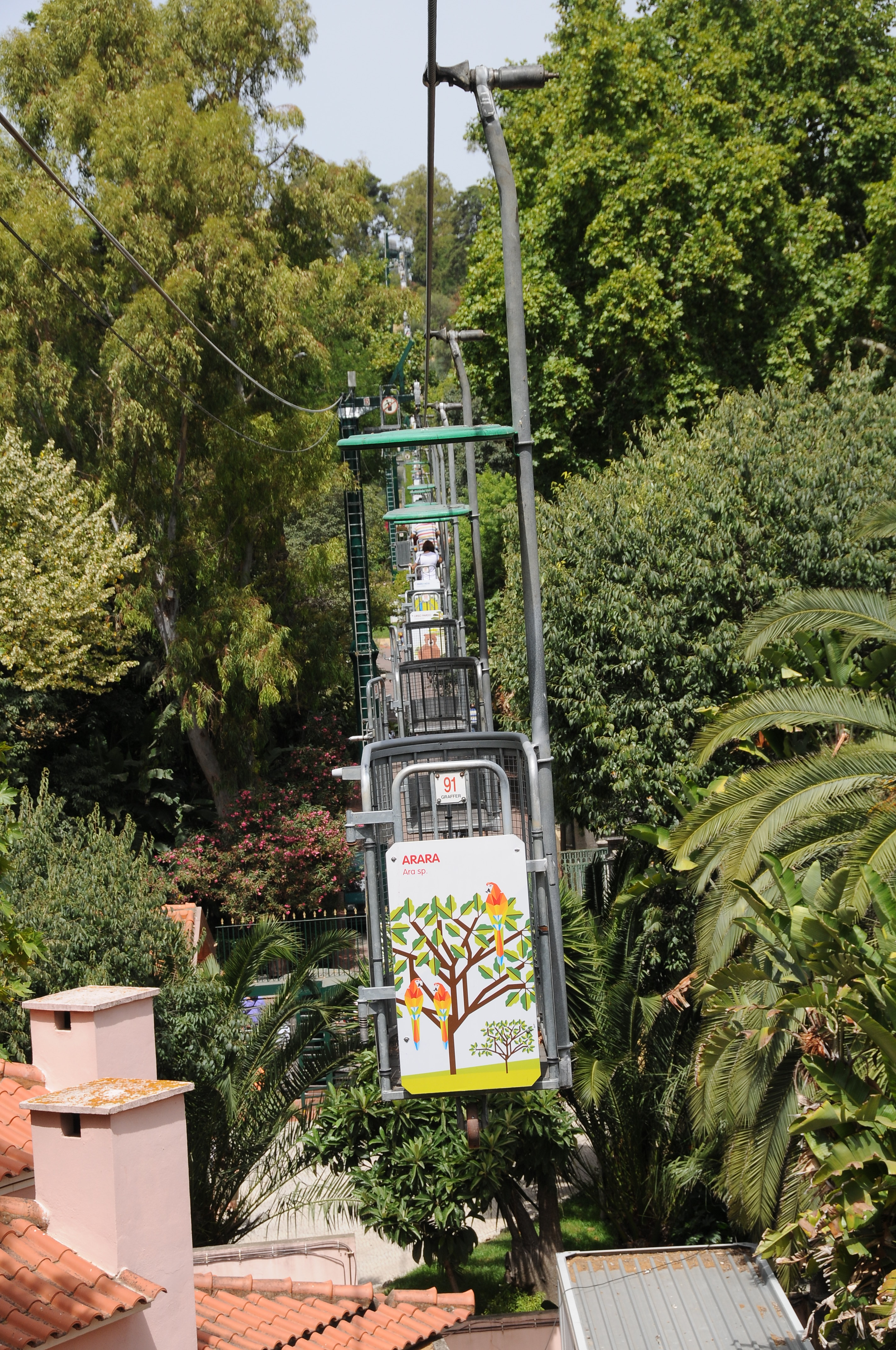 Cableway in Jardim Zoológico de Lisboa